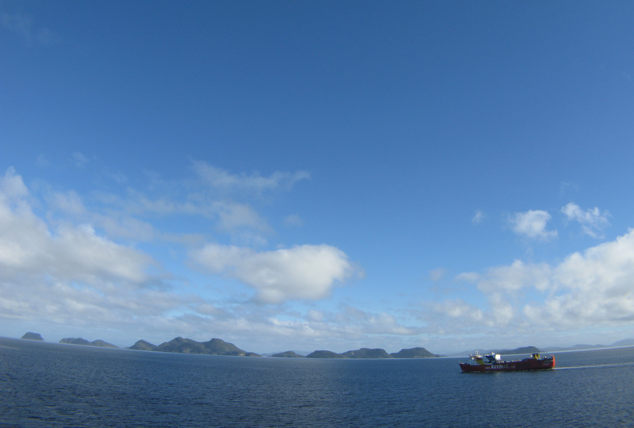 Puerto Edén (ferry) - Navimag - 114 meters / 19 meters / 52 cabins / made in Finland / 14 nds max